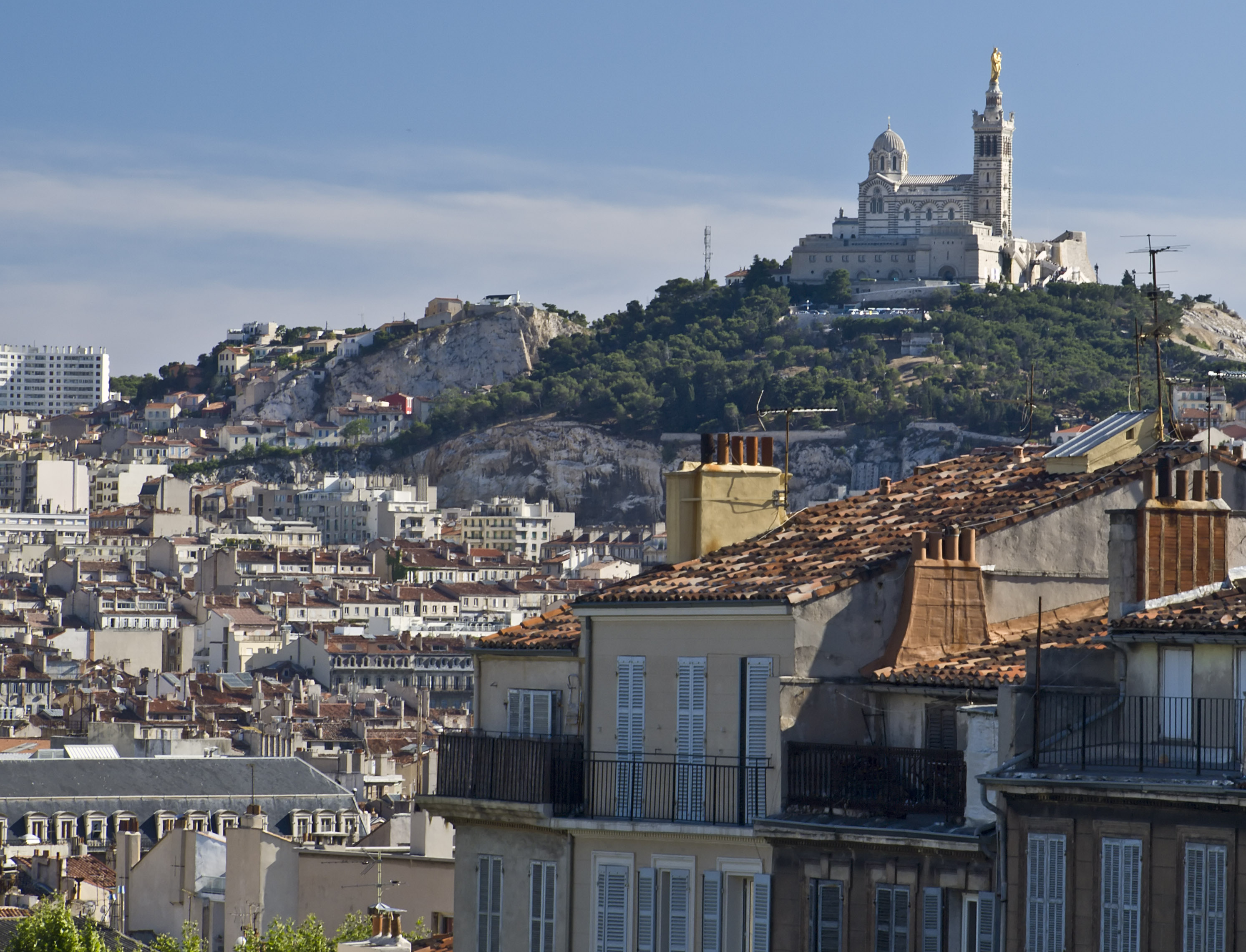 "Notre-Dame de la garde" basilica, in Marseille, taken from the Saint-Charles station